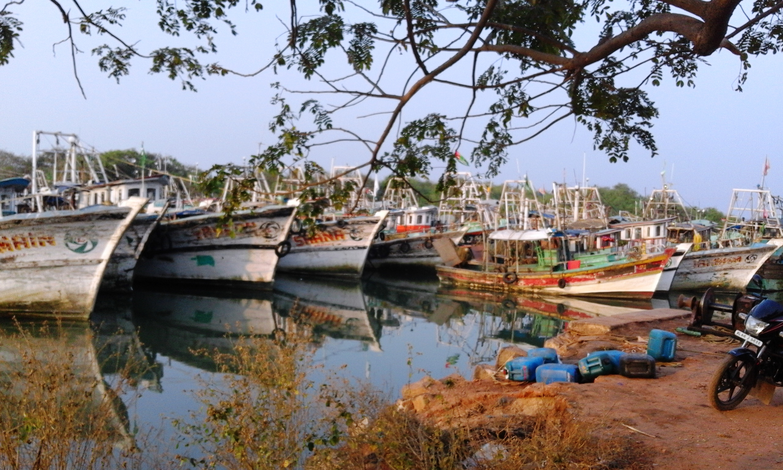 Ponnani, Malappuram Dt, Kerala, India